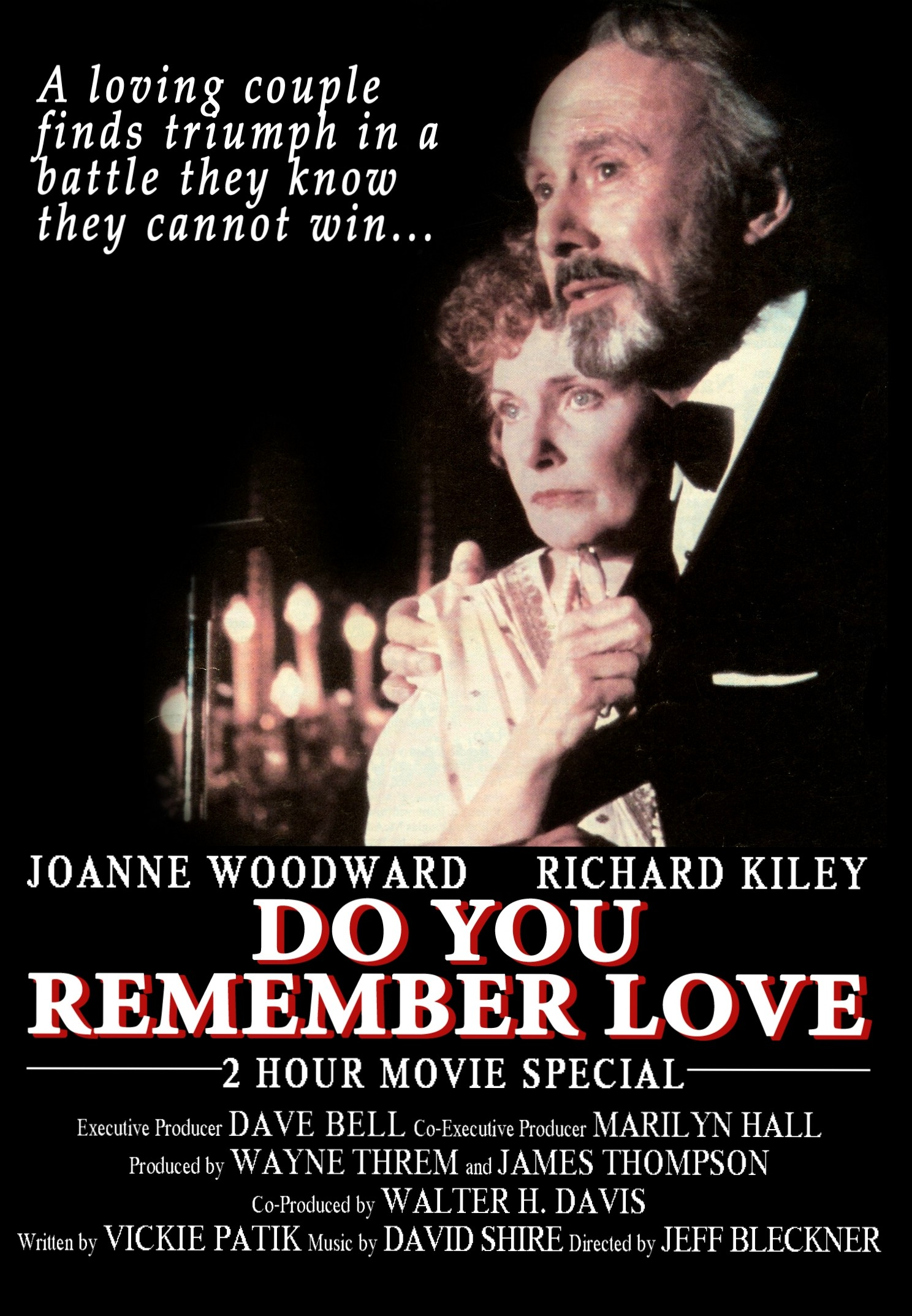 Promotional poster for the film Do You Remember Love.